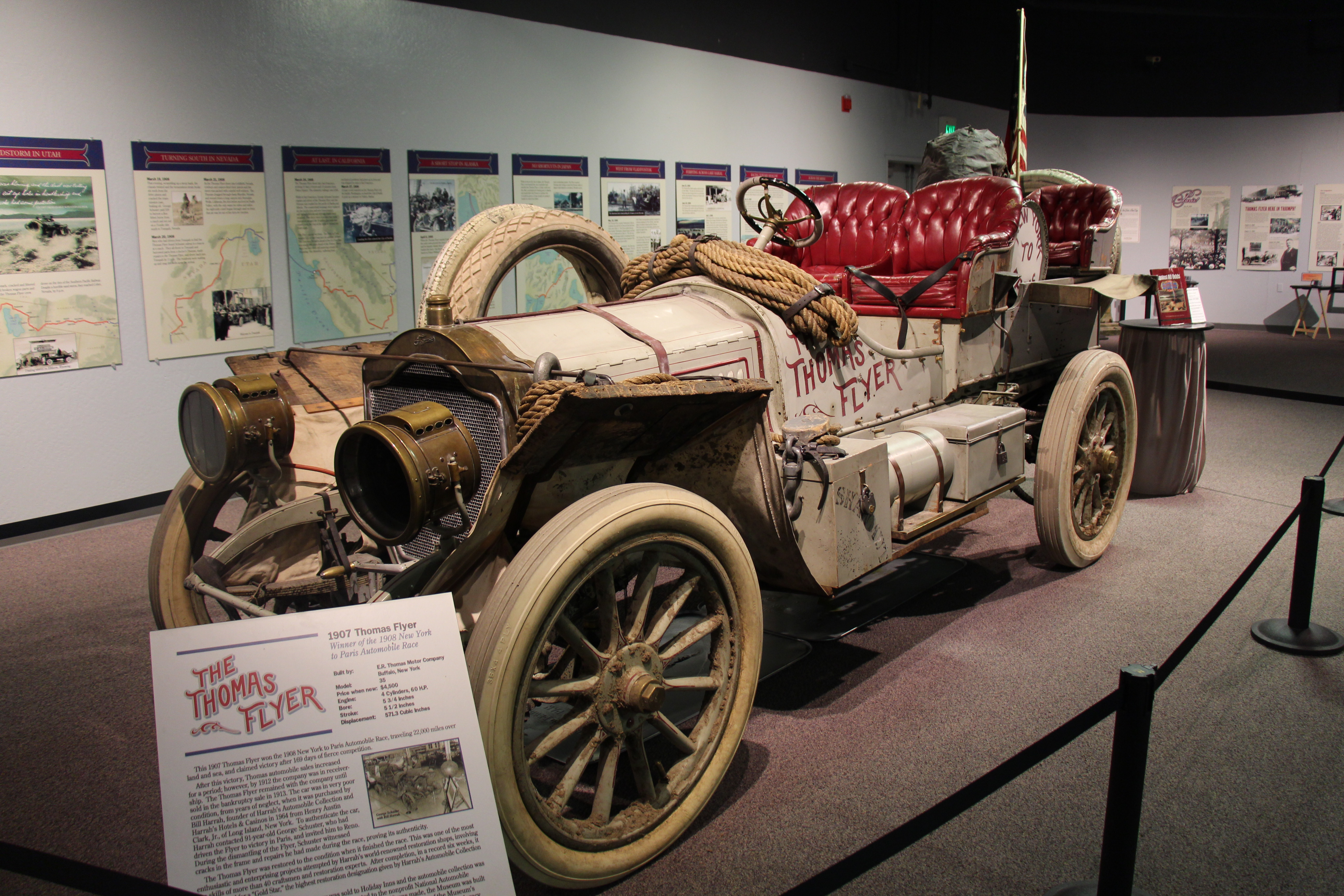 E. R. Thomas Motor Company was a manufacturer of automobiles in Buffalo, New York between 1902 and 1919. The first car was the 1902 Model 17, then the next year, the 1903 Model 18. The first Thomas Flyer was built in 1904. This Model 35 Thomas Flyer won the 1908 New York to Paris Automobile Race, they travelled 22,000 miles over land and sea taking 169 days. Only 3 of the 6 cars finished, 2nd was a German Protos and 3rd an Italian Zust. Thomas automobile sales increased due to the race win, but they went into receivership in 1912 This car was in very poor condition, when purchased by Bill Harrah, he restored the car to as it finished the race in 1908 Engine; 60hp 571 cu in 4 cyl On display at the National Automobile Museum, Reno